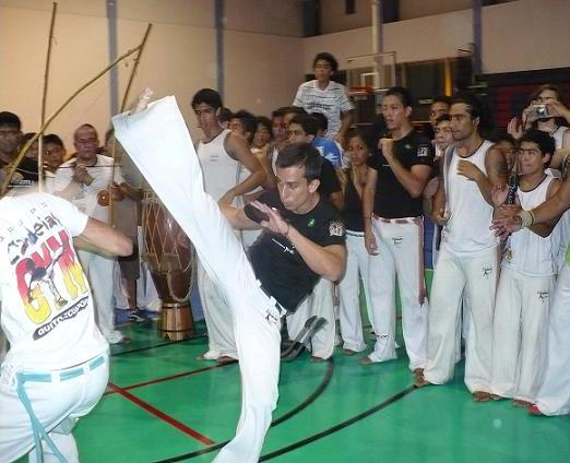 Roda Ginga Show, Capoeira Candeias, Lima - Peru